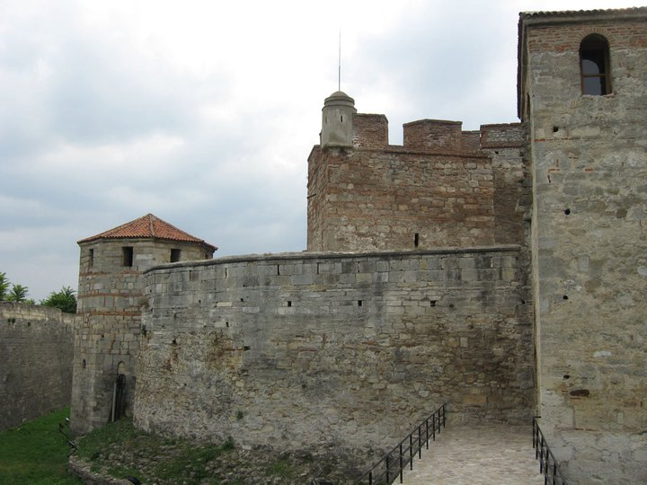 Baba Vida Fortress, Vidin, Bulgaria